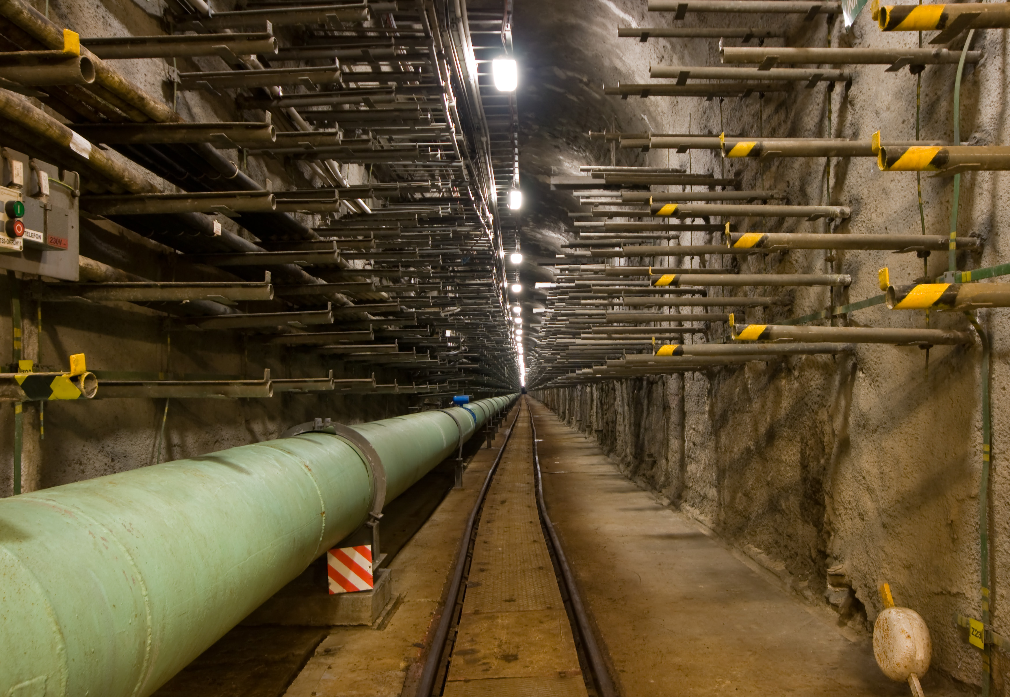 Utility tunnels Prague, Prague Tato série fotografií vznikla za laskavého svolení společnosti Kolektory Praha